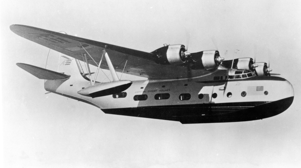 PictionID:40971562 - Title:Vought-Sikorsky VS-44A American Export Airlines - Catalog:15_002853 - Filename:15_002853.tif - PictionID:40971474 - Title:Lancer Republic YP-43 - Catalog:15_002846 - Filename:15_002846.tif - Image from the Charles Daniels Photo Collection album "US Army Aircraft."----PLEASE TAG this image with any information you know about it, so that we can permanently store this data with the original image file in our Digital Asset Management System.----SOURCE INSTITUTION: San Diego Air and Space Museum Archive